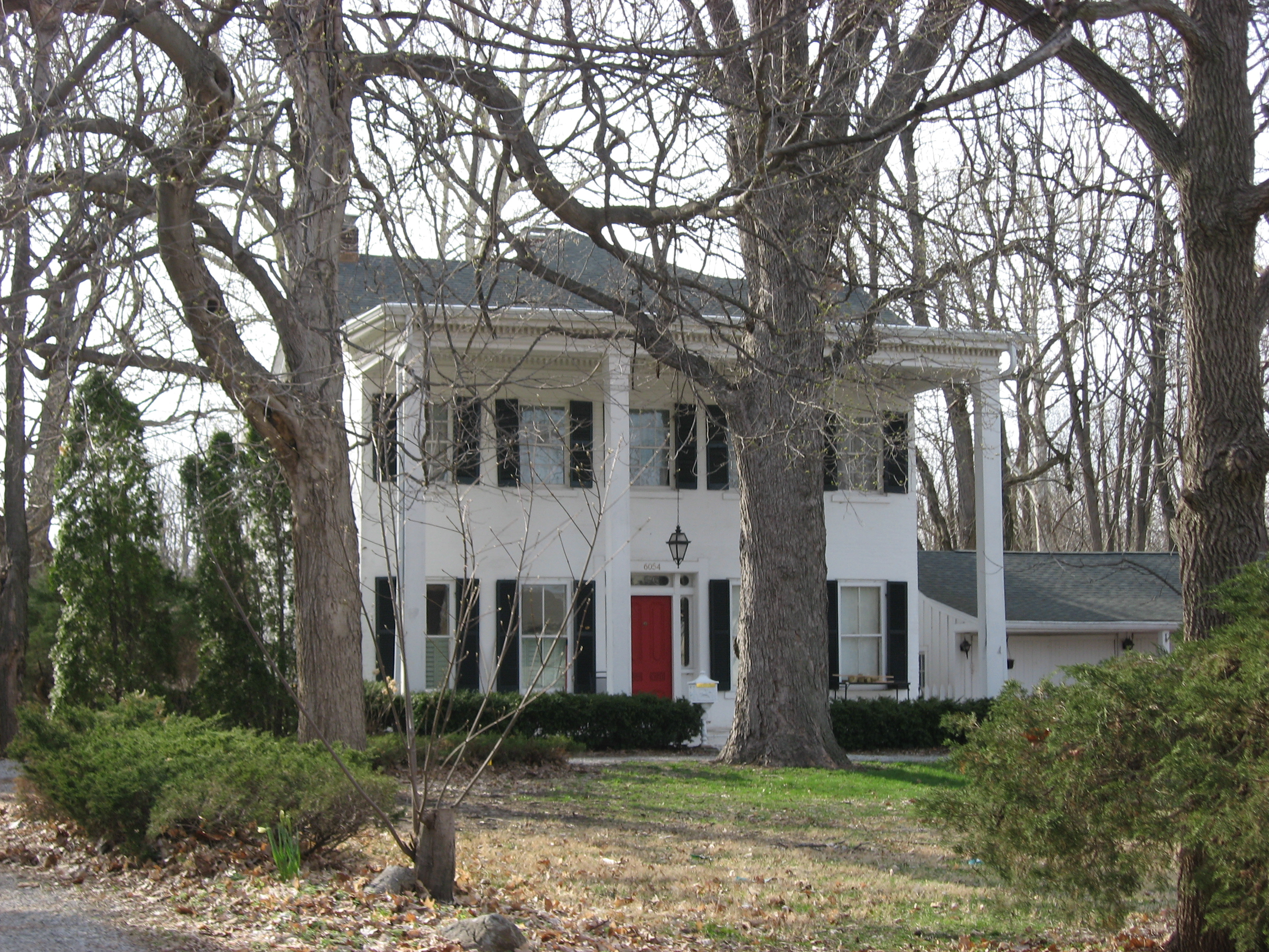 Front of the Hollingsworth House, located at 6054 Hollingsworth Road in Indianapolis, Indiana, United States. Built in 1854, it is listed on the National Register of Historic Places.